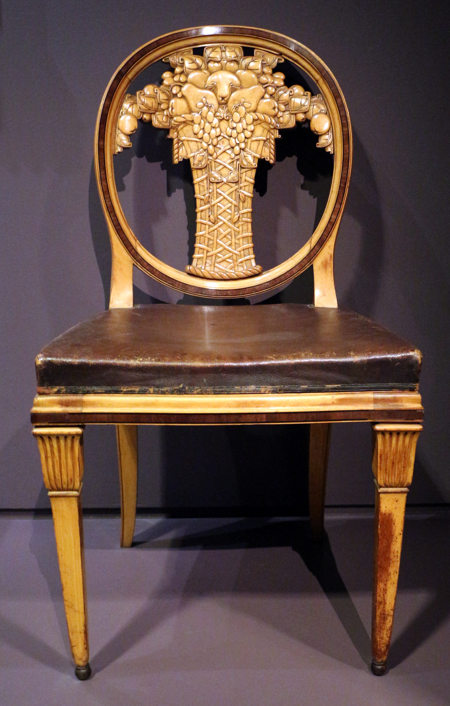 Decorative arts in the Musée d'Orsay